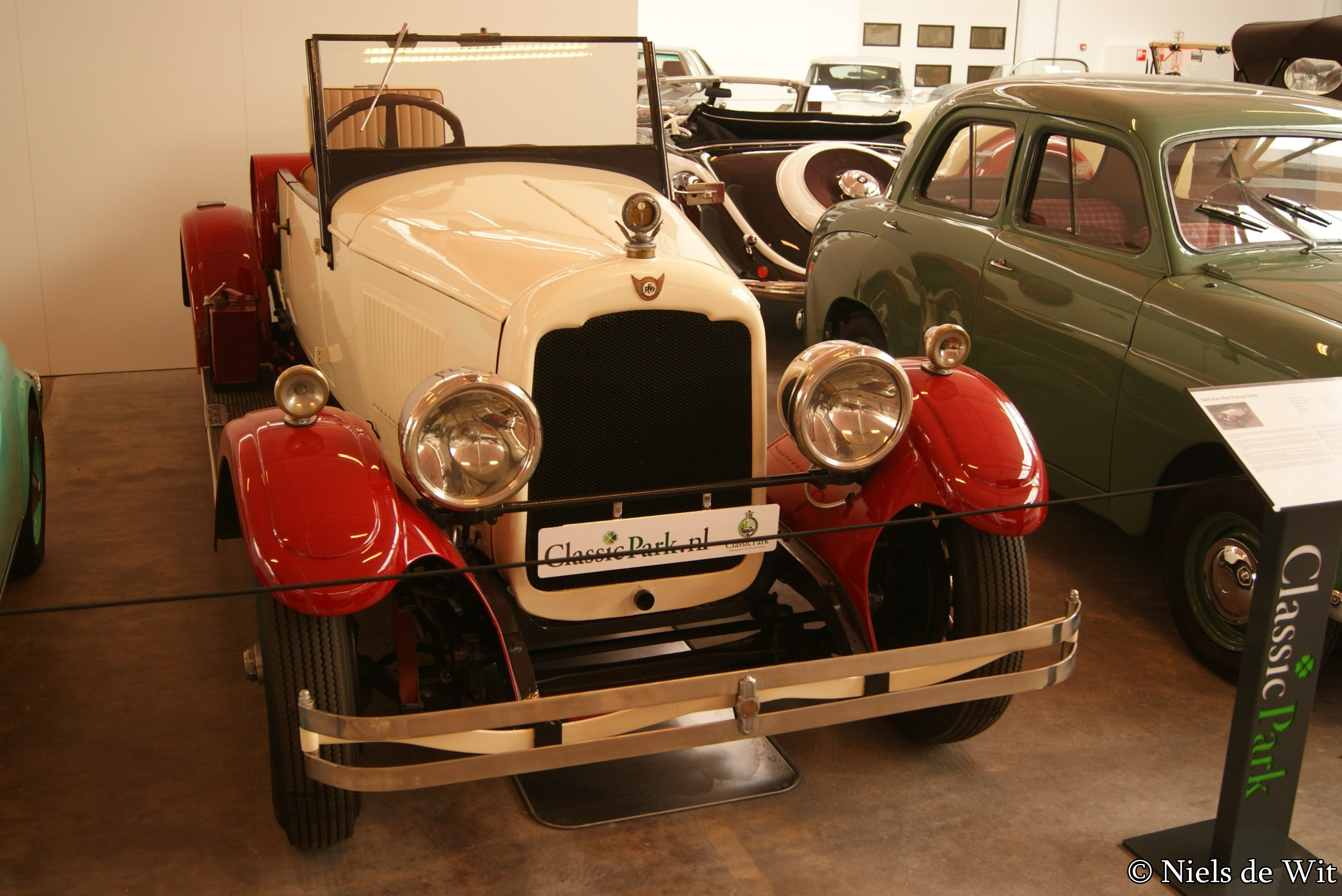 Classic Park Boxtel